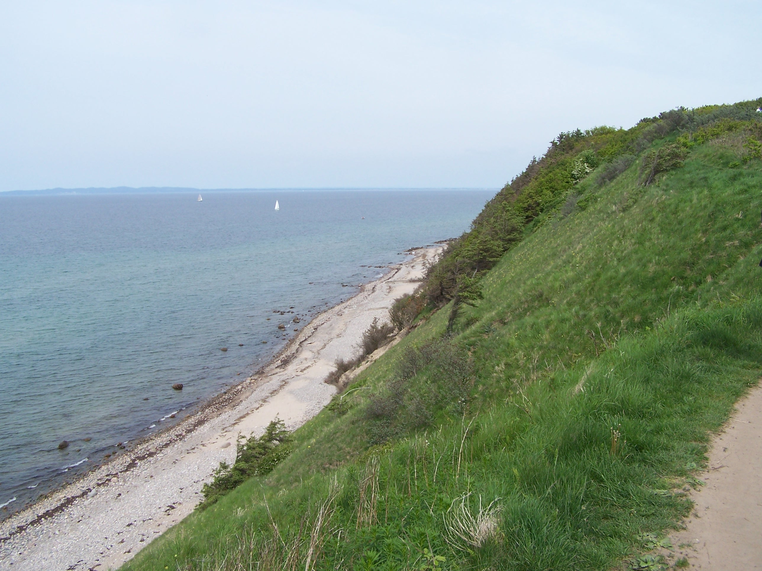 North Zealand coast at Gilleleje. The Swedish peninsula of Höganäs in the horizon, across the sea of Kattegat.